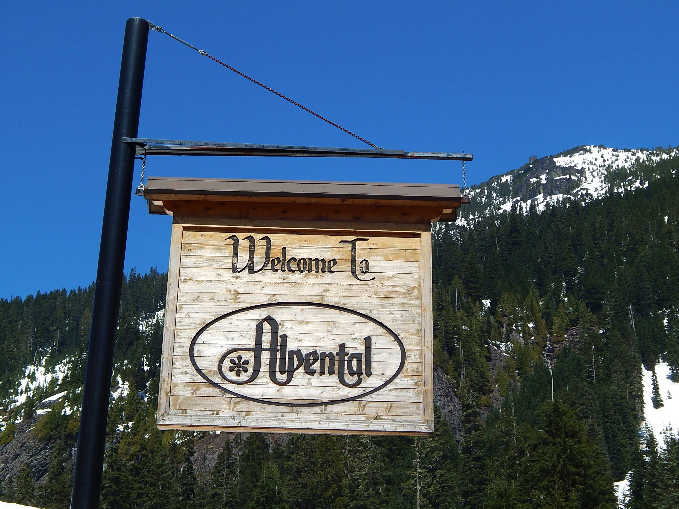 Alpental ski area sign at Snoqualmie Pass, WA